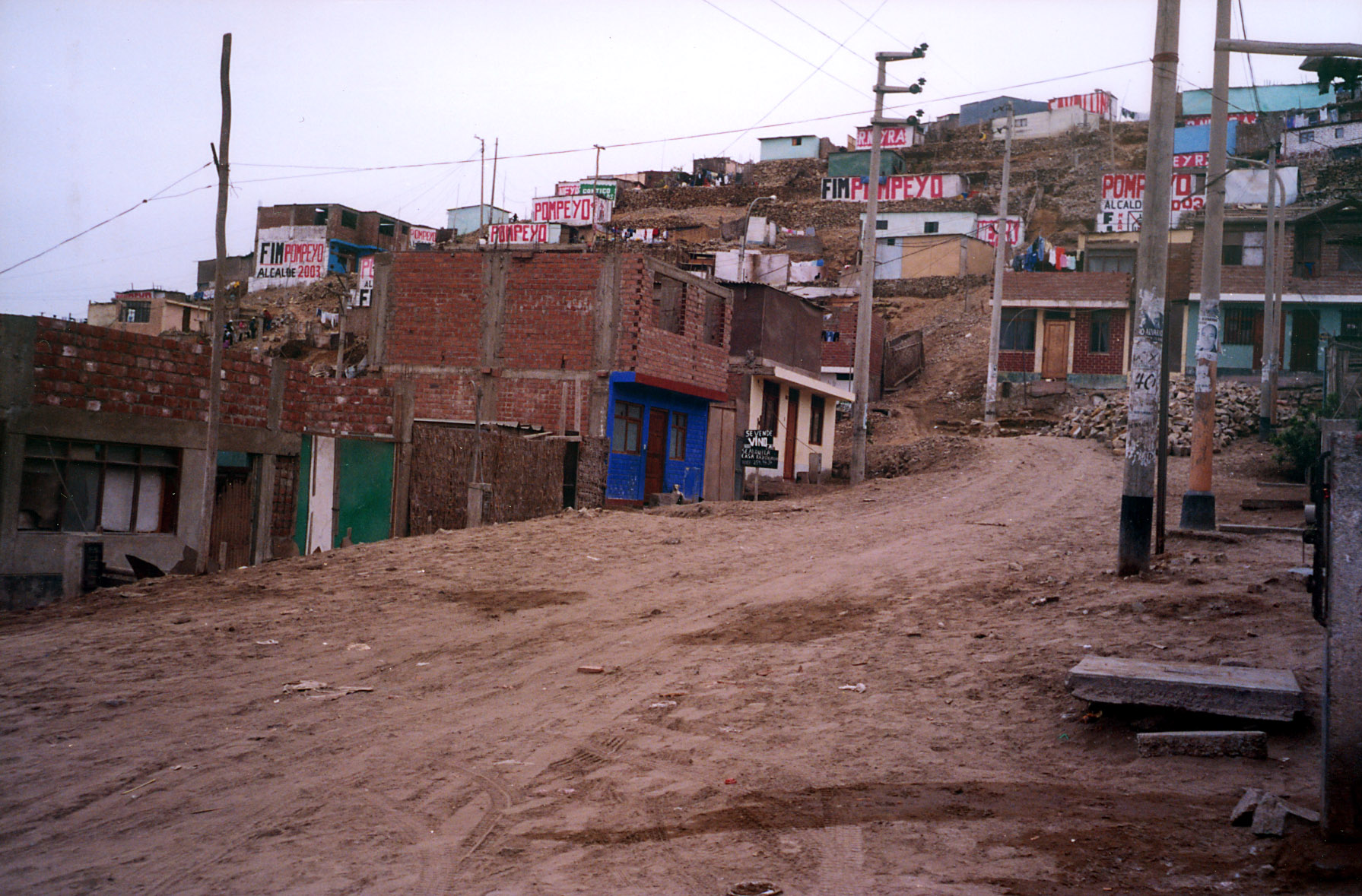 Pueblo Joven, south of Lima.